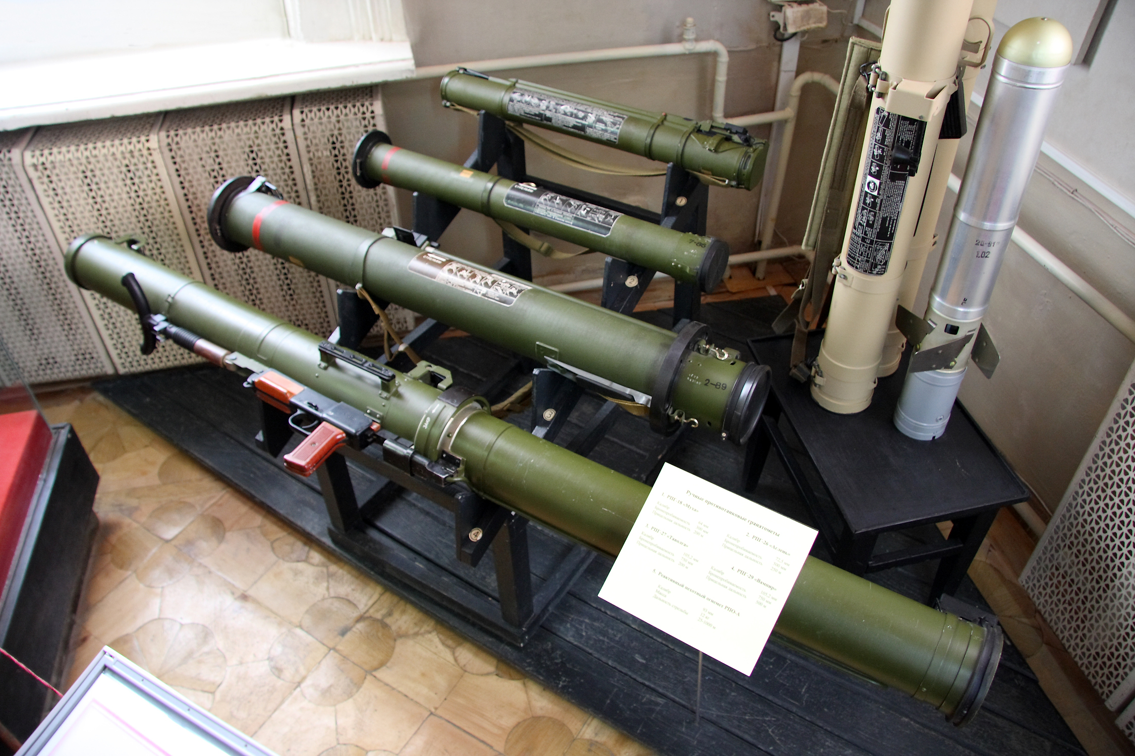 1: RPG-18 Mukha, 2: RPG-26 Aglen', 3: RPG-27 Tavolga, 4: RPG-29 Vampire and 5: RPO-A Shmel